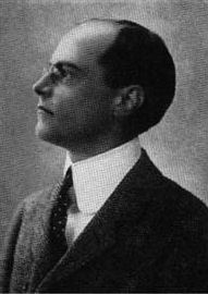 Photograph of Charles Hamilton (1876–1961).